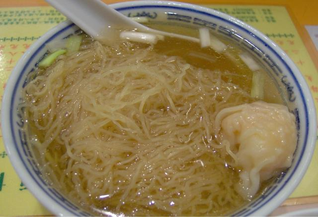 A bowl of wanton noodles in Hong Kong.